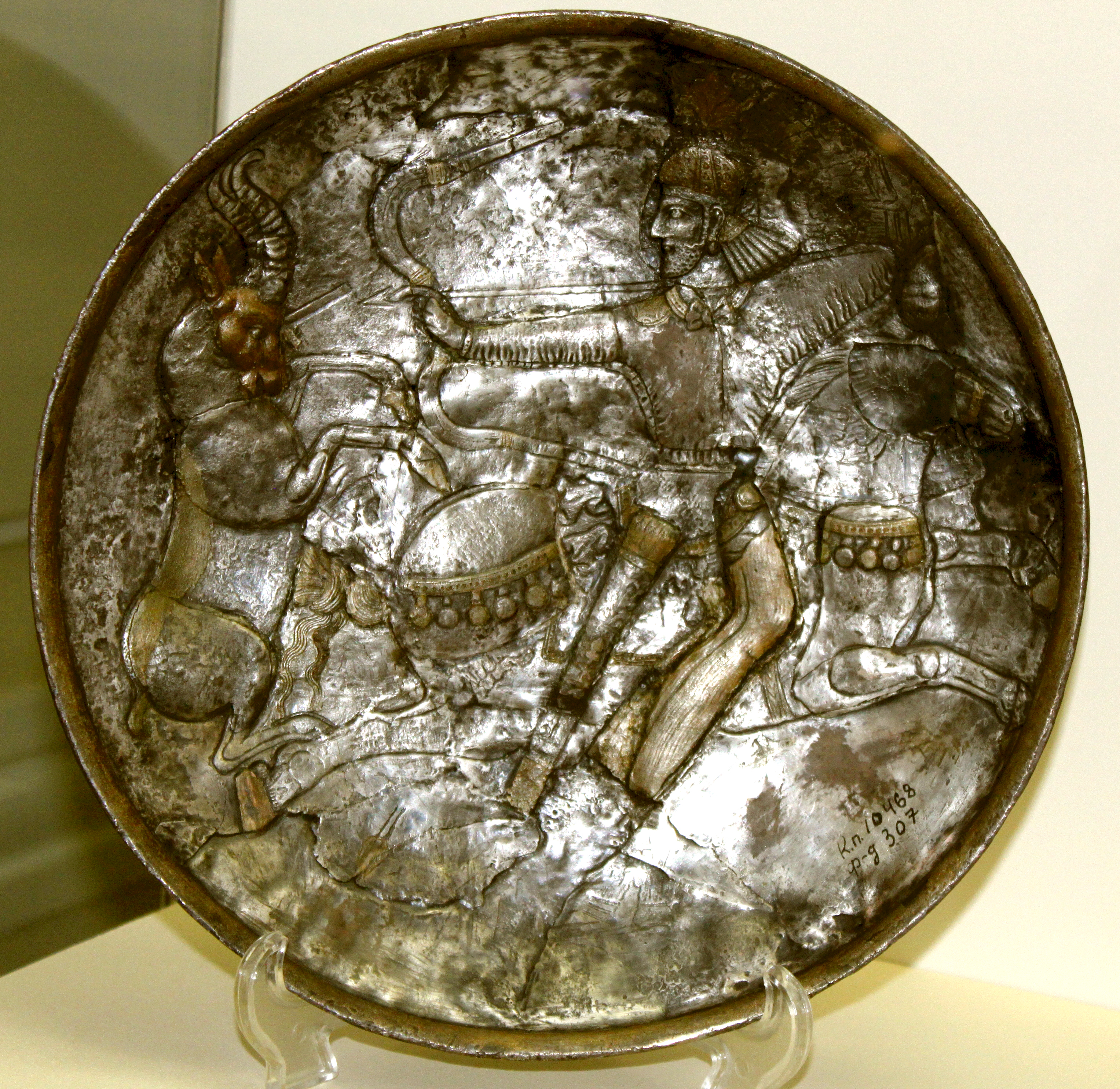 Mis qab, Xınıslı, Qafqaz Albaniyası